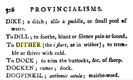 Definition of "dither" from The Rural Economy of Yorkshire: Comprizing the Management of Landed Estates, and the Present Practice of Husbandry in the Agricultural Districts of that County, by Mr. Marshall (William), Vol. II, London: T. Cadell, 1788.